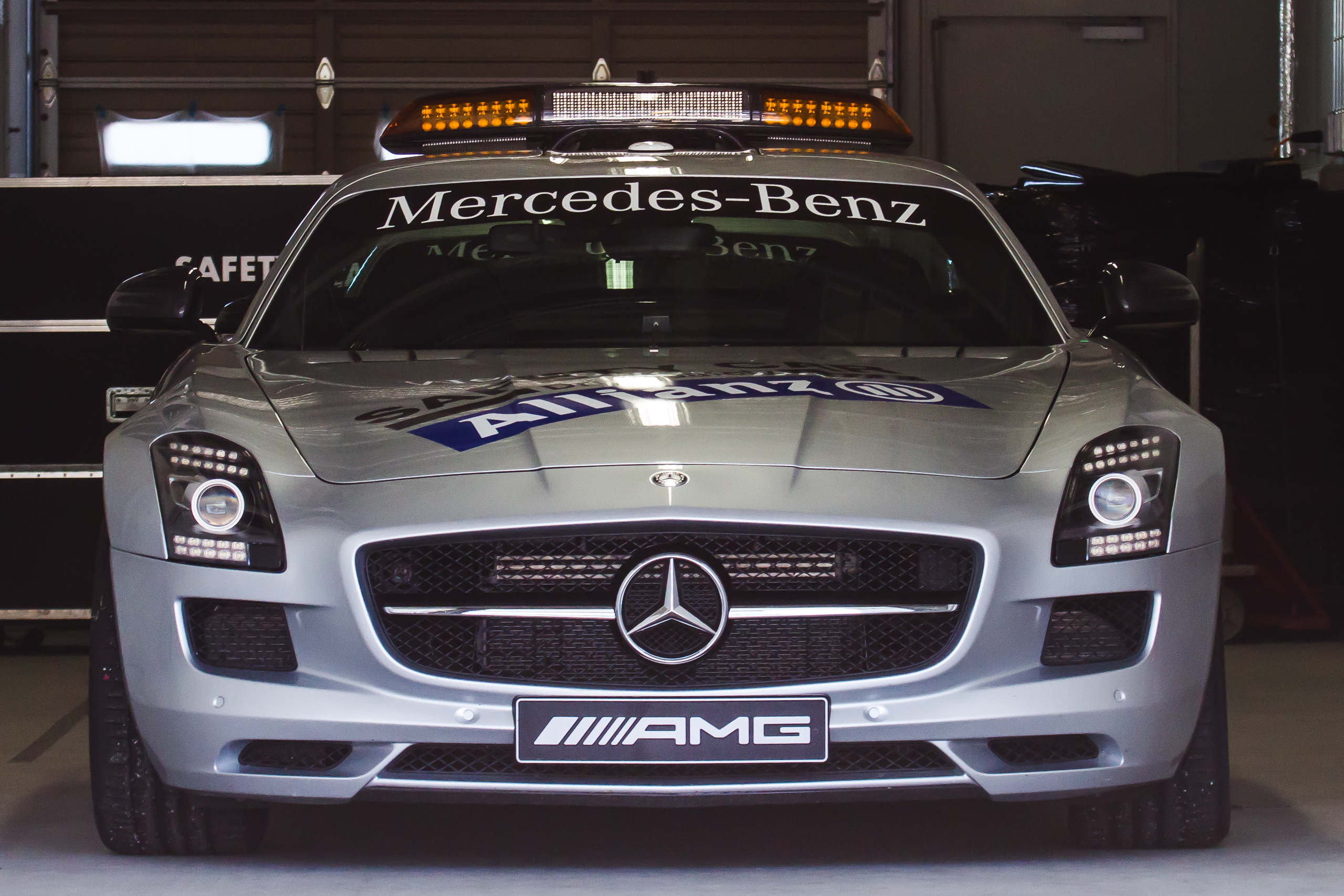 Formula One 2012 Rd.15 Japanese GP: Mercedes-Benz SLS Formula One safety car